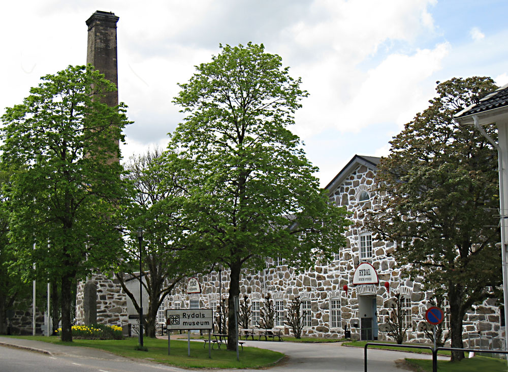 Rydal Cotton Mill Museum in Mark, West Sweden. Exterior.